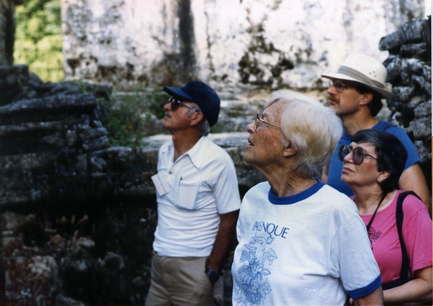 Mayanist and art historian Merle Greene Robertson showing group around Maya site of Palenque during 1986 "Mesa Redonda" conference. Photo by Infrogmation